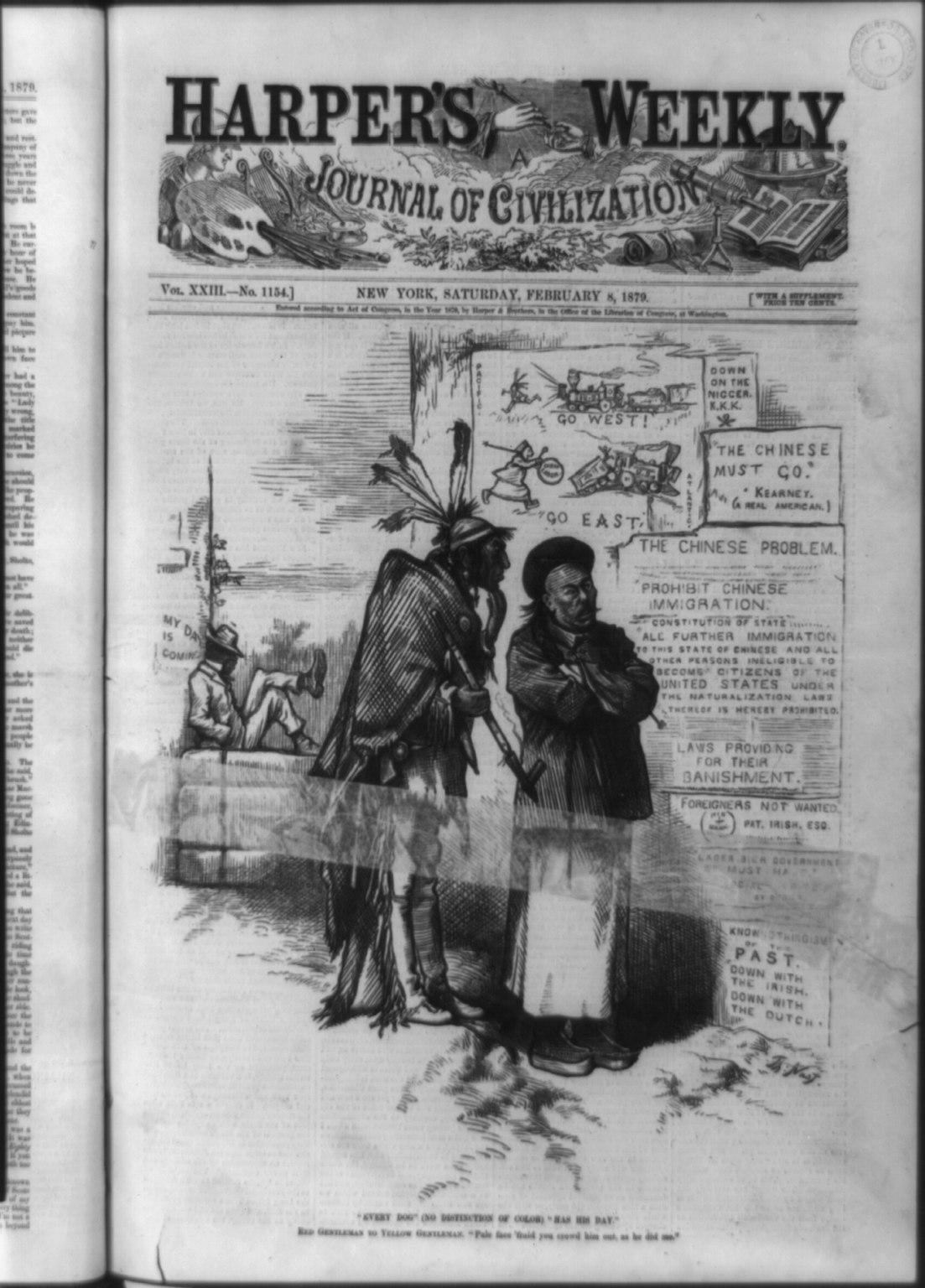 Title: Every dog...has his day - Red gentleman [Indian] to yellow gentleman [Chinese] "Pale face 'fraid you crowd him out, as he did me." / Th. Nast. Abstract/medium: 1 print : wood engraving.